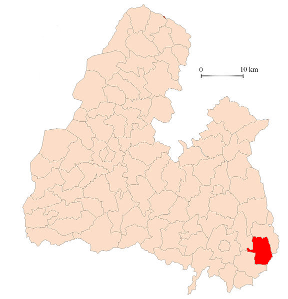 Outline map of North Tipperary showing the location and extent of Twomileborris electoral division